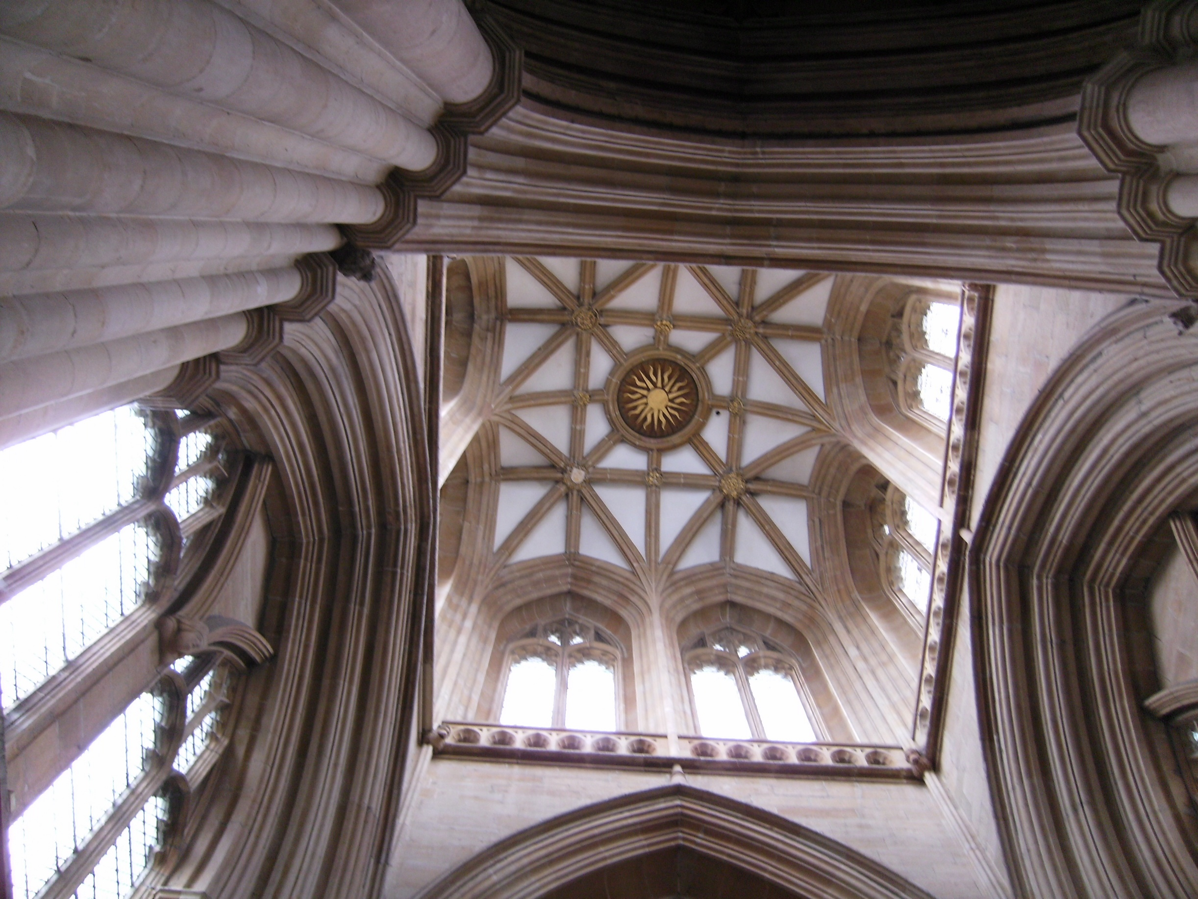 Interior of western tower, St James church, Louth, Lincolnshire, UK.